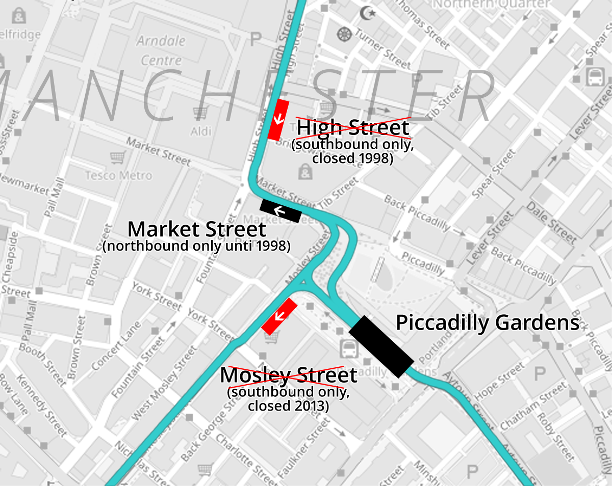 Map of the Manchester Metrolink City Zone showing the original layout of the tram stops in 1992, with Market Street northbound only and High Street southbound only This map may be incomplete, and may contain errors. Don't rely solely on it for navigation.